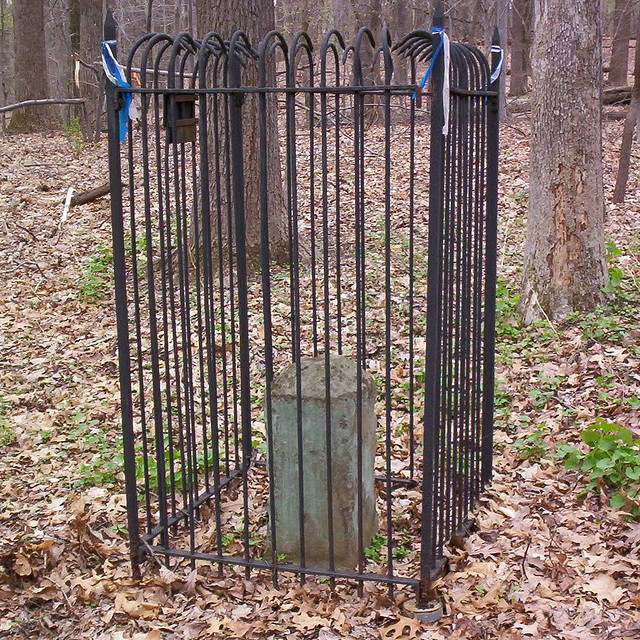 DC Boundary Stone Northwest Mile 5, that is the stone 5 miles northwest of the westernmost point of the original District of Columbia. The stone was placed in 1791-1792 by Andrew Ellicott and Benjamin Banneker. for a map of these stones.